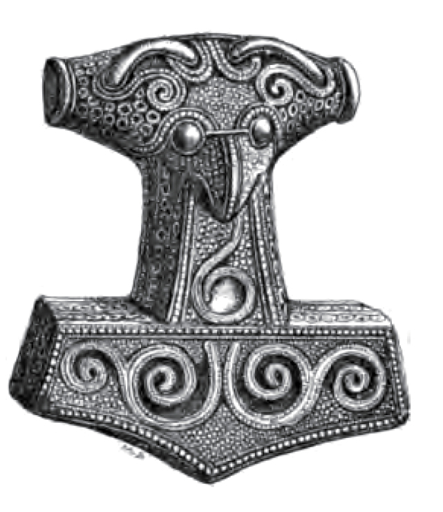 An amulet, "silver strongly gilt", representing the hammer of Thor. Found in 1877 in Skåne, Sweden.